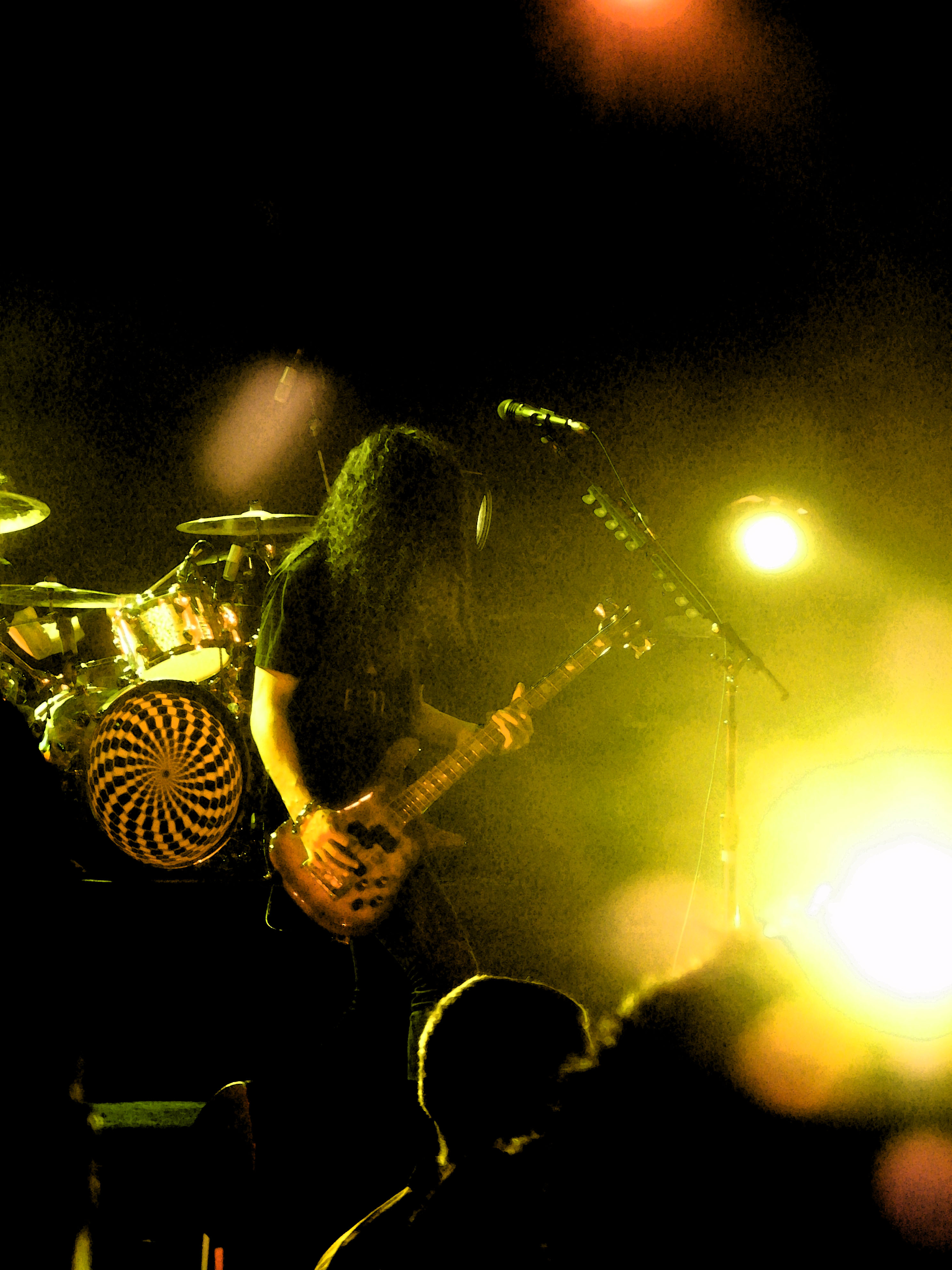 Mike Inez live in London, 2009